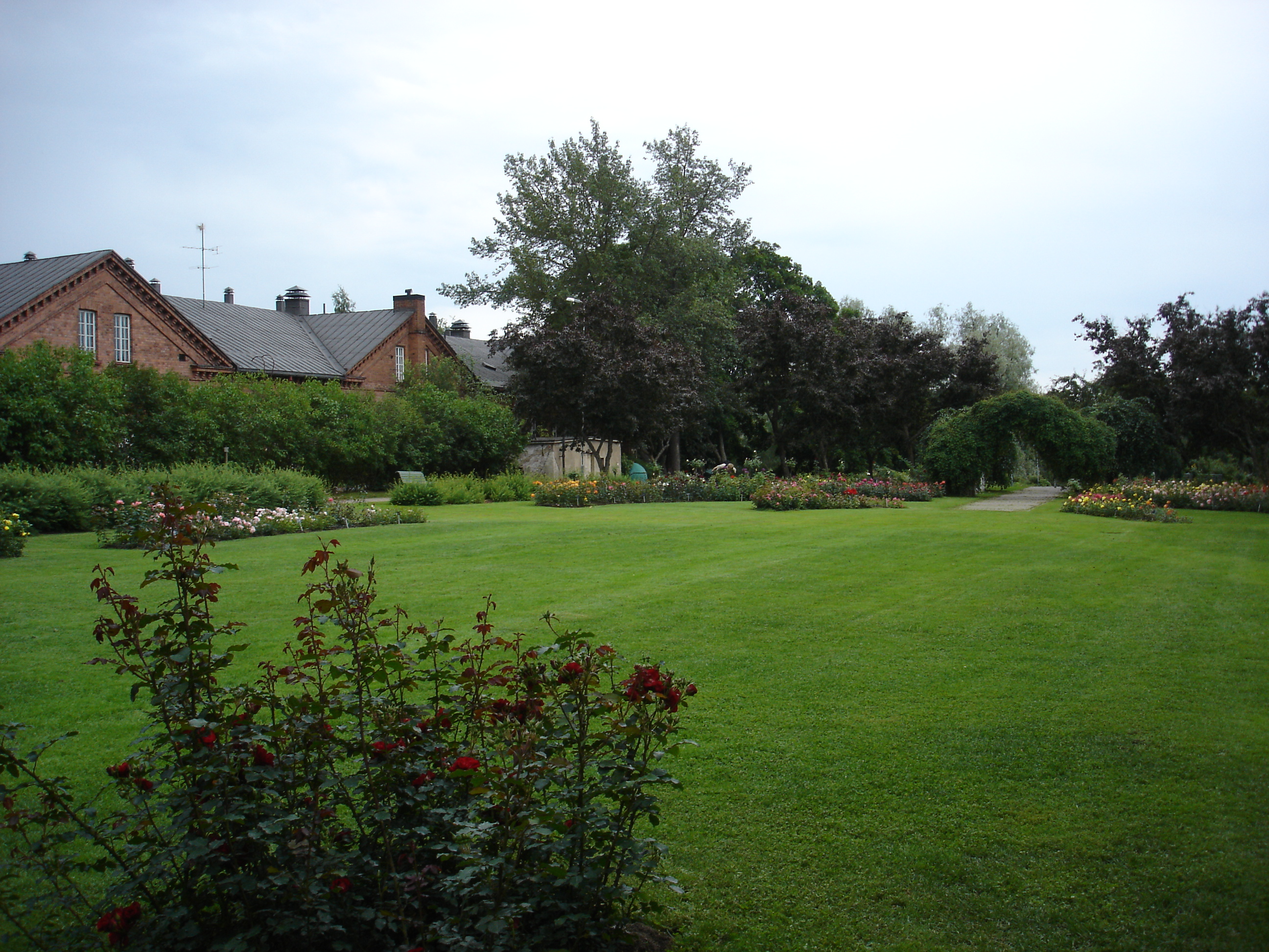 Hatanpään arboretum, a botanical garden in Tampere